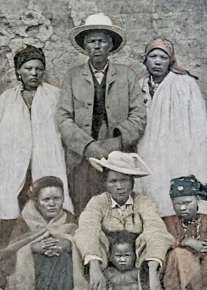 Caption of the photo postcard: Hottentot Chief Witboy with his family